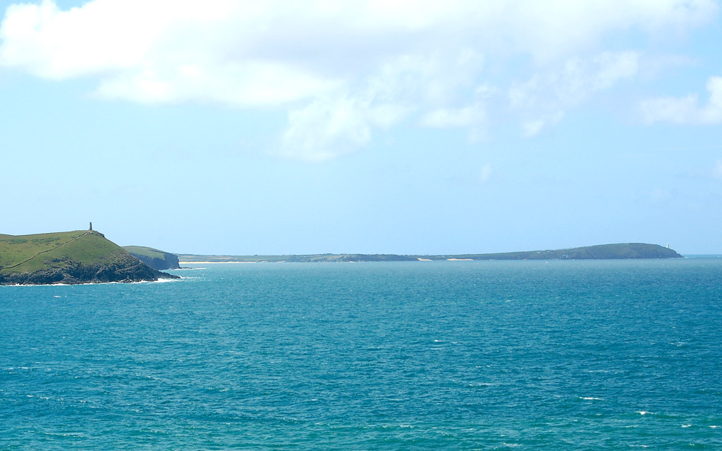 A photograph of Trevose Head, north Cornwall, taken by me in 2006